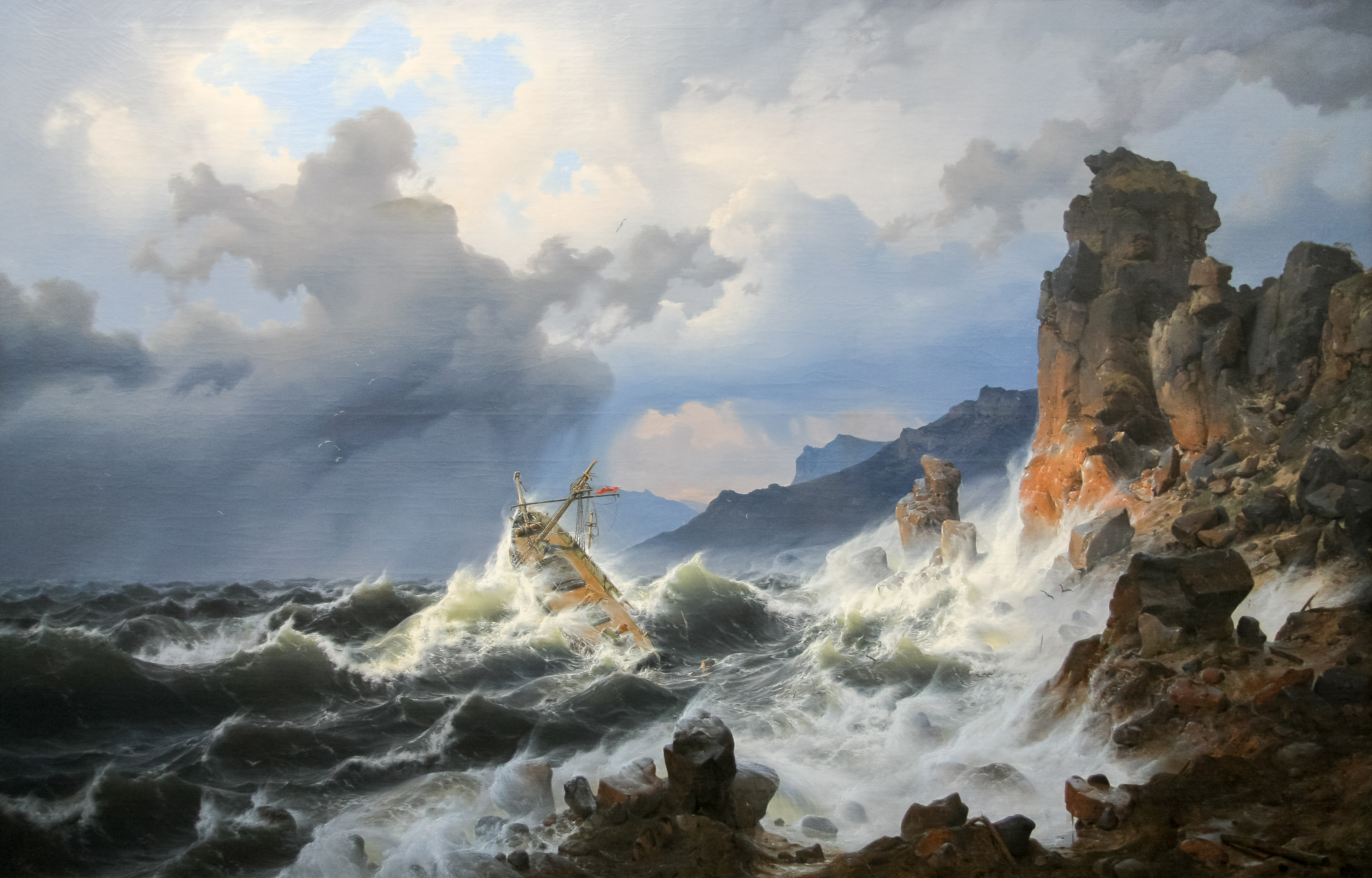 Ein Seesturm an der norwegischen Küste (1837), Städel, Frankfurt